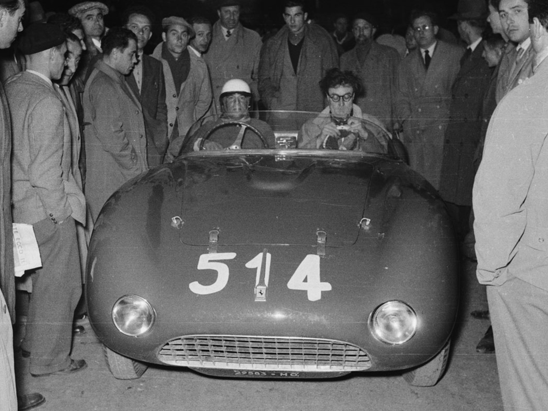 Alberico Cacciari (driver) and journalist Bill Mason (with camera) in Ferrari 166 at 1953 Mille Miglia, in particular, this is the 1953 Ferrari 166 MM Autodromo Spyder s/n 0272M that Cacciari had bought earlier that spring. They ended in 56th place.[1] Mason was a filmmaker, and had been hired by Shell Oil Company to make a 37-minute film during this drive in this car.(video)